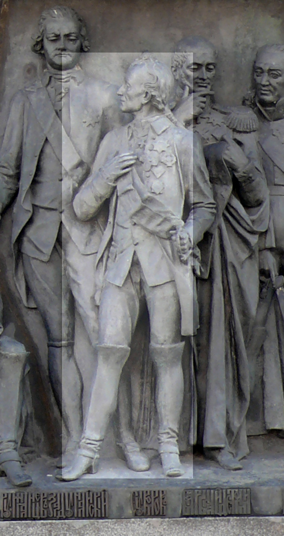 Alexander Suvorov on the Monument «Millennium of Russia» in Veliky Novgorod